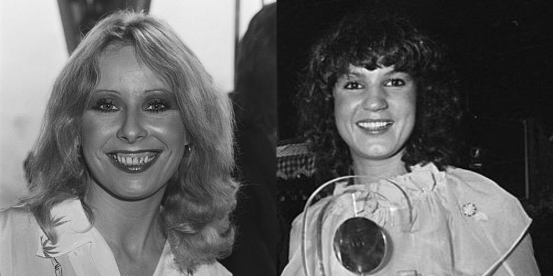 Bonnie (1981) and Jose (1979). This image represents the group "Bonnie and Jose"